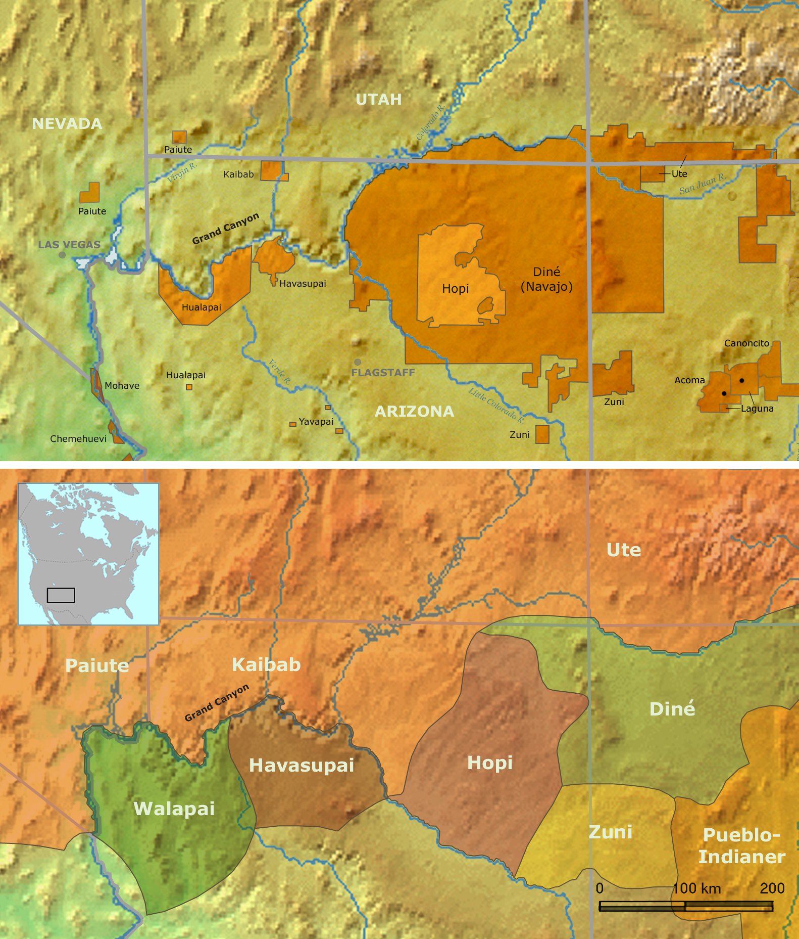 Map of Native American tribes in Arizona — located in the Grand Canyon and Northern Arizona regions. Showing the traditional Indian tribal territories (bottom); and contemporary reservations (top).